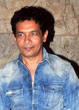 Atul Kulkarni at the trailer launch of Marathi film Mitwaa